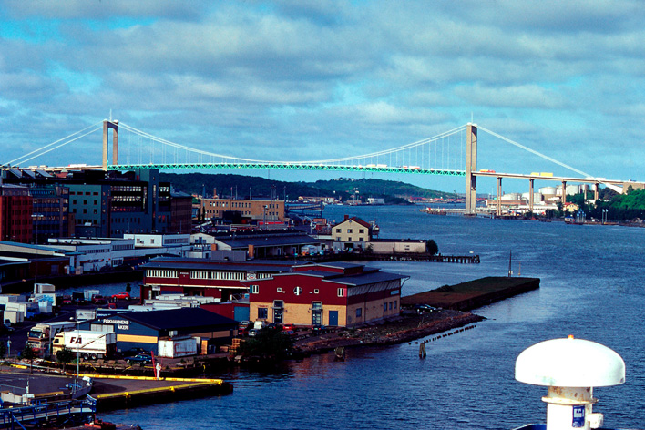 Älvsborg bridge in Gothenburg, Sweden